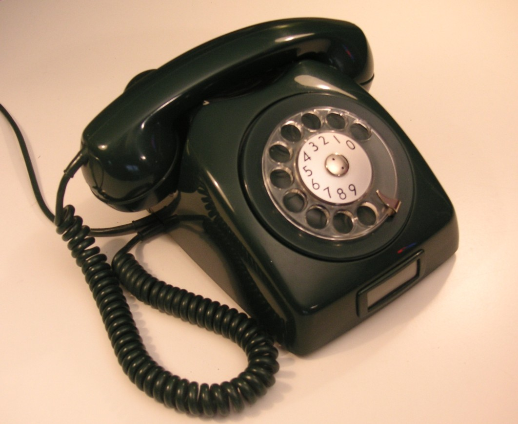 Ericssons Telefon "Dialog"